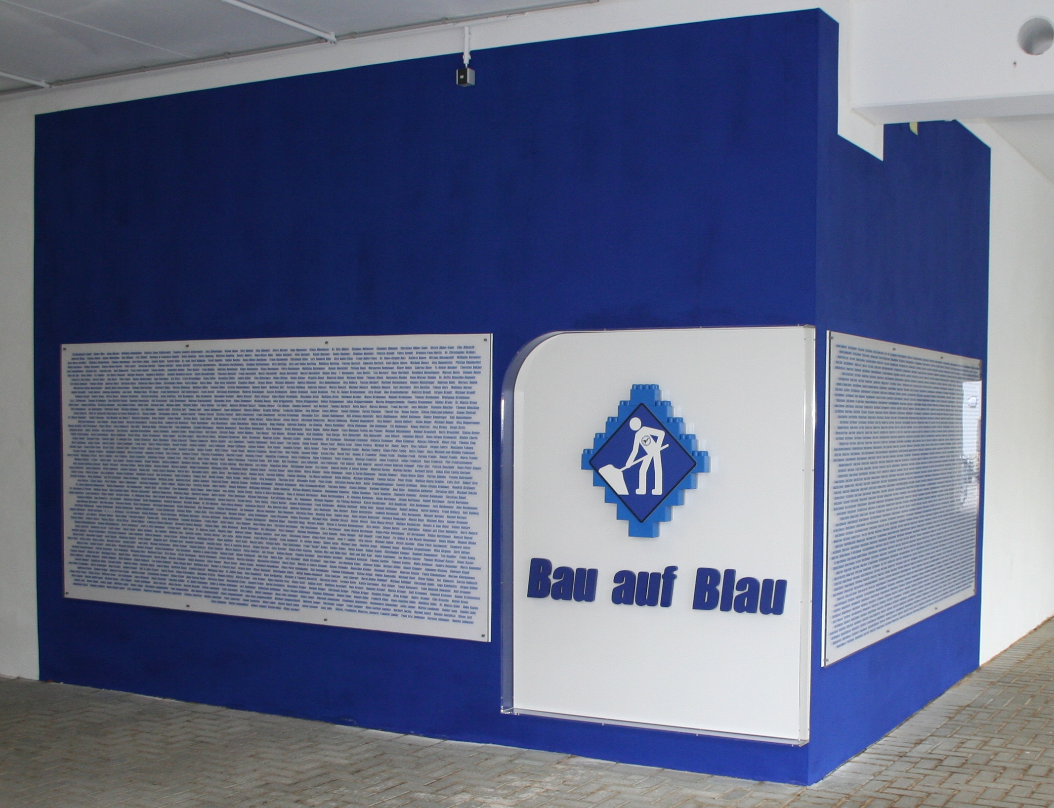 The "Blaue Wand" (Blue Wall) (Arminia Bielefeld - Bielefelder Alm).